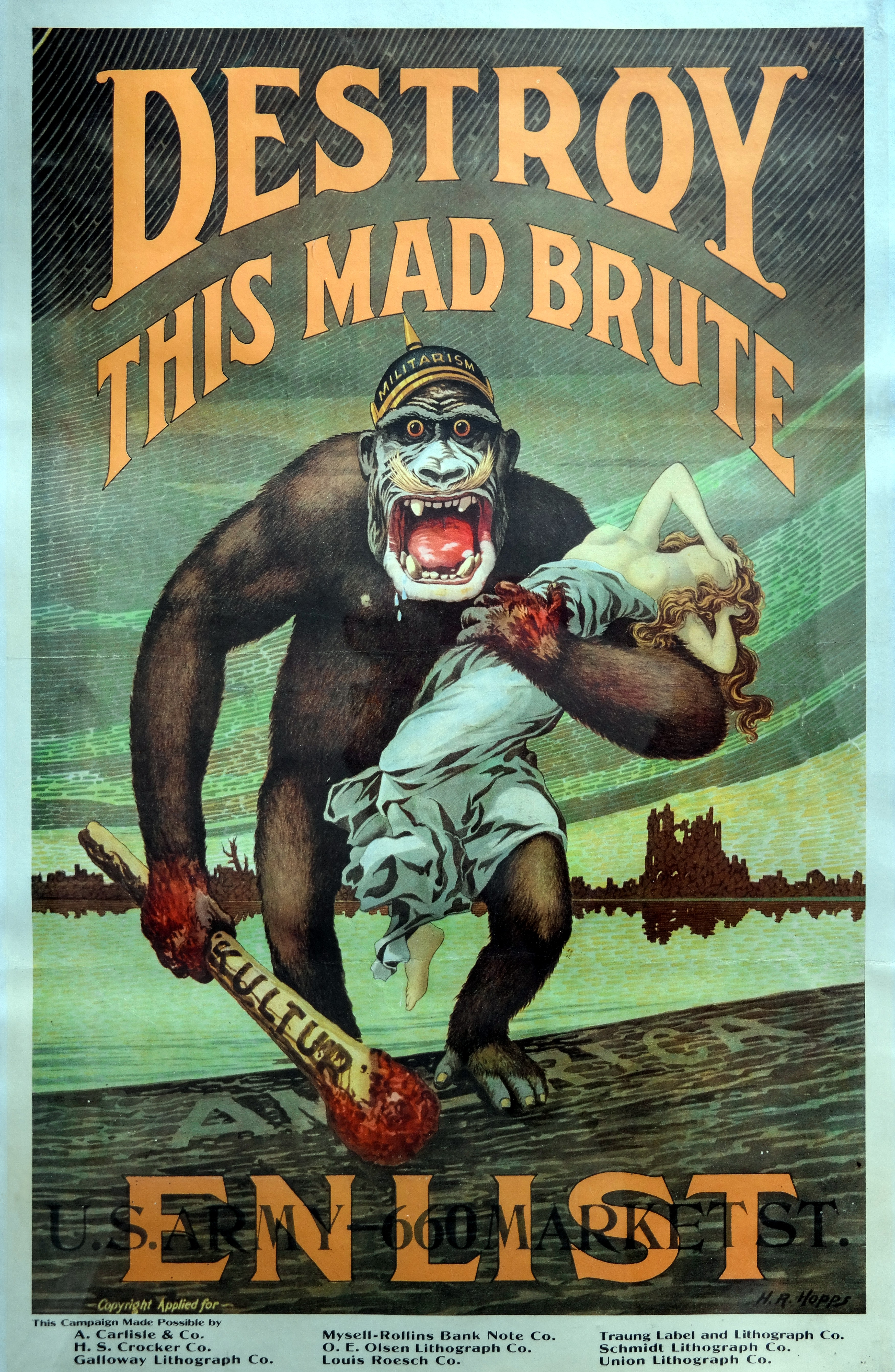 USA. H. R. Hopps (1869-1937). Destroy this Mad Brute (Destroy this crazy cattle). 1917. 82 x 59 cm. (Slg.Nr. 3262) The illustration on the poster (as well as in the film of 1930) goes back to the figure of the people consuming monkeys in the work of the French painter and sculptor Gustave Doré. The German humanity is represented as a giant ape with Pickelhaube absolutely denied. In one hand he holds a with "Culture" Marked bloody mace, an allusion to the "Manifesto of the 93", a statement of 93 major intellectuals and artists of the German Empire in favor of the war. The kidnapped woman, clutching should represent the German-occupied neutral Belgium. After German submarines had actually reached American shores, and the unrealistic fear but effective scenario was set up a US invasion by the German army.